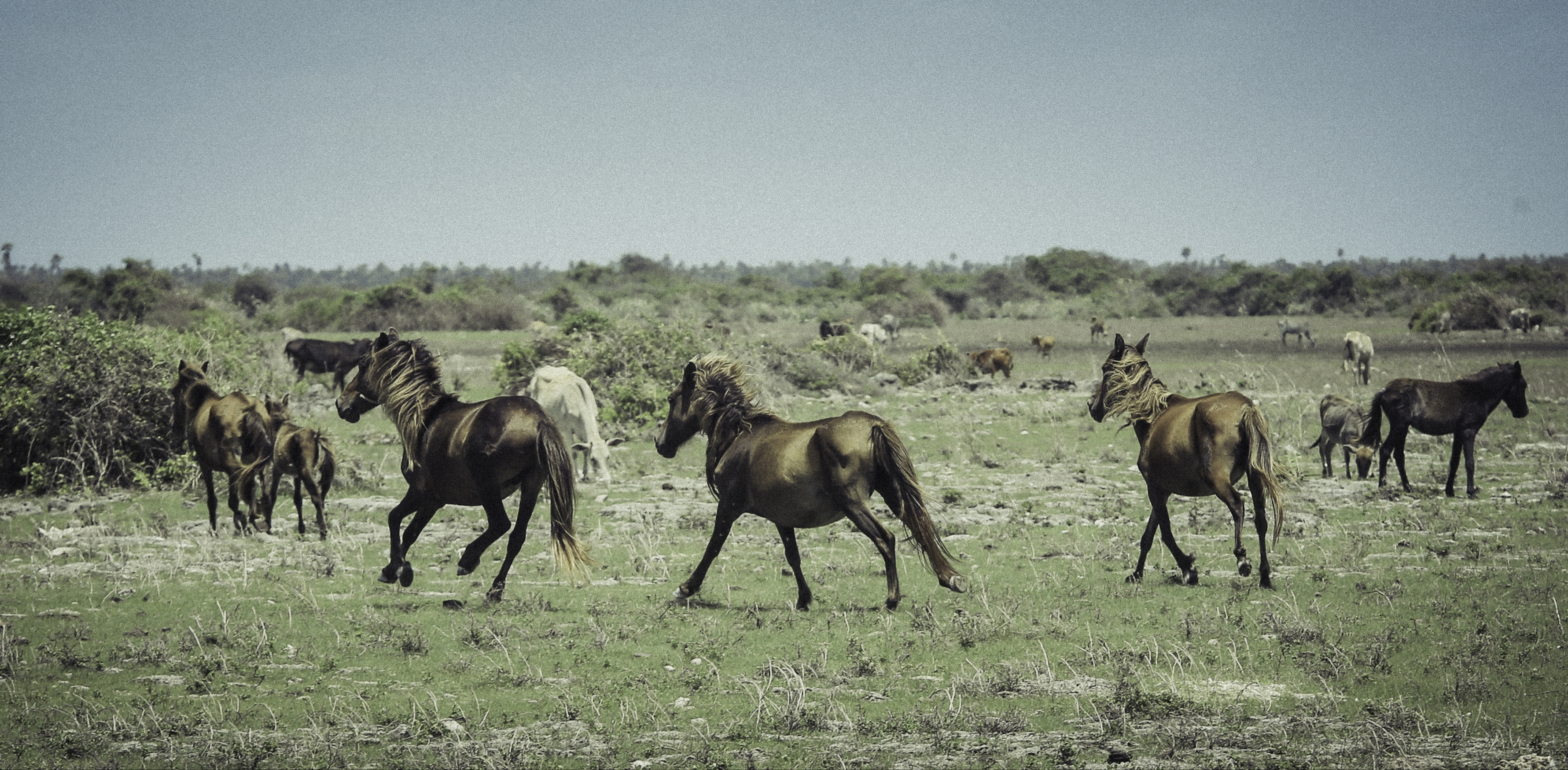 The only place in Sri Lanka with Wild Horses is Delft Island of Northern Sri Lanka. These Horses were brought here by the Britons. This Island attracts most of the tourists to see these Horses.